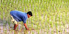 Smaller cropped version, made for Template:Agriculture